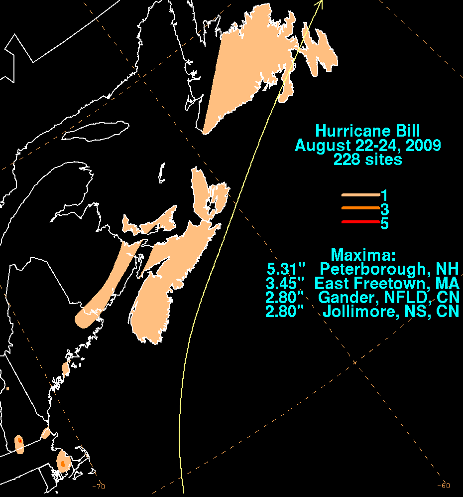 Storm total rainfall map of Hurricane Bill during August 2009.